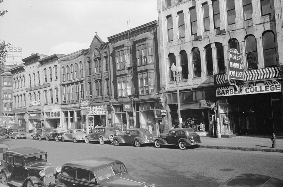 Hotels and cafes in Gateway District, Minneapolis, Minnesota. Digital ID: fsa 8a05147 Reproduction Number: LC-USF33-T01-001615-M2